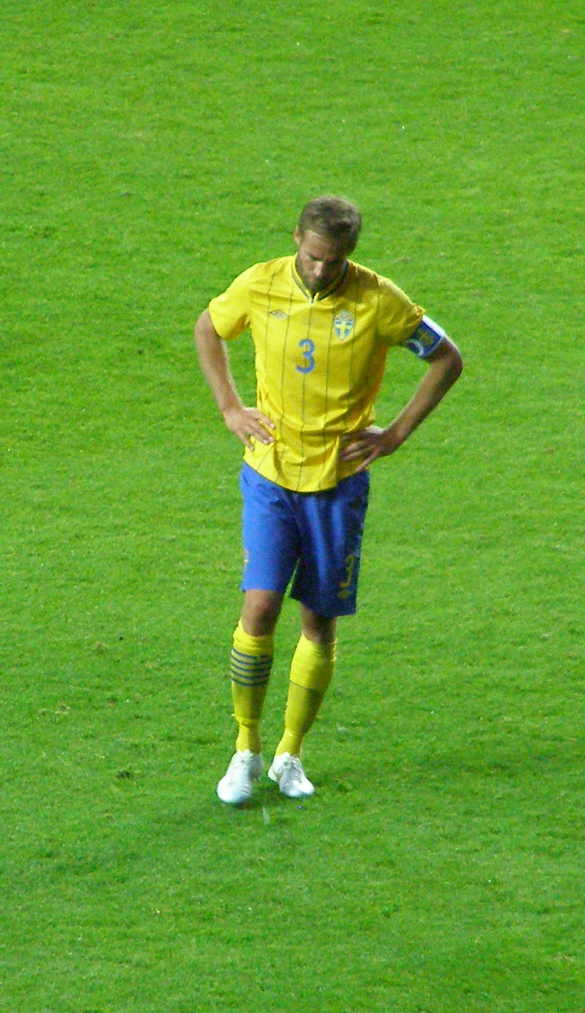 Gothenburg - Gamla Ullevi - Sweden-Iceland friendly - Olof Mellberg